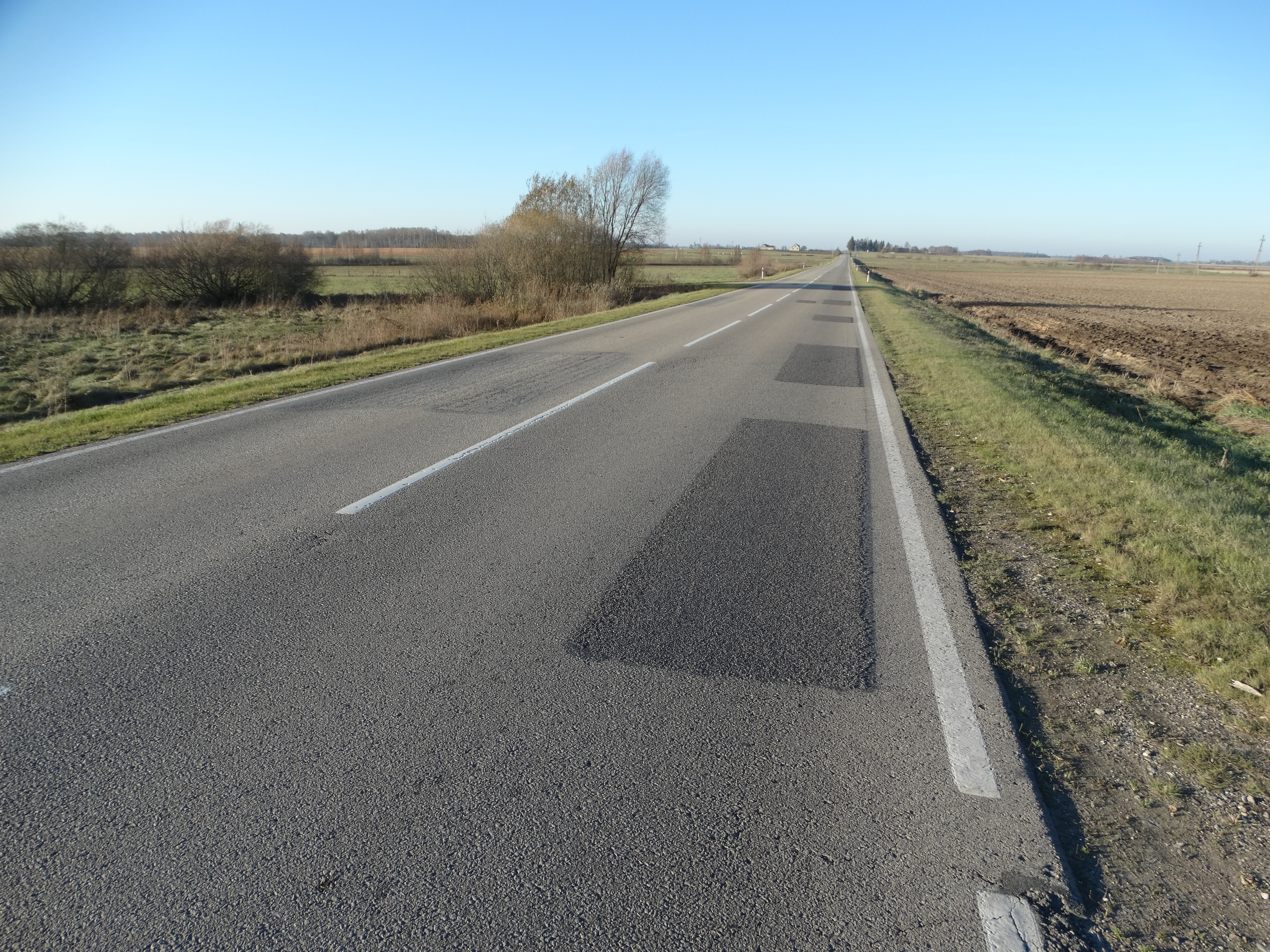 Regional road 124, Kupiškis district, Lithuania